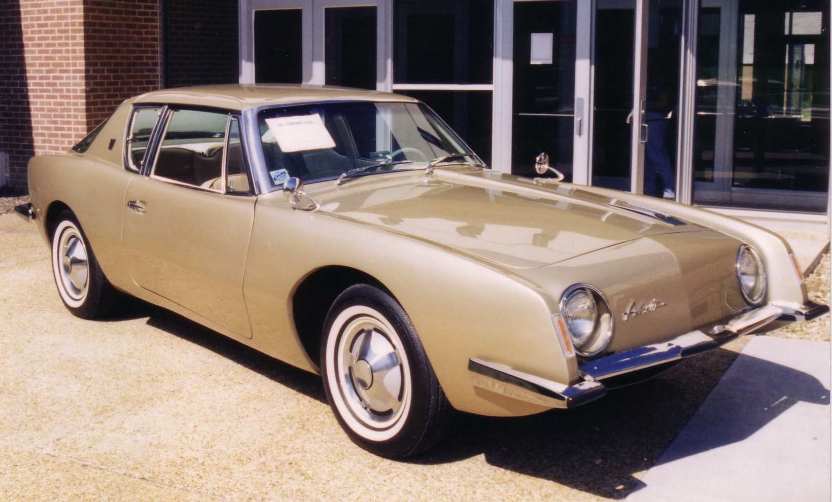 1963 Studebaker Avanti coupe - finished in gold. Picture taken on the campus of Concord University in Athens, West Virginia.